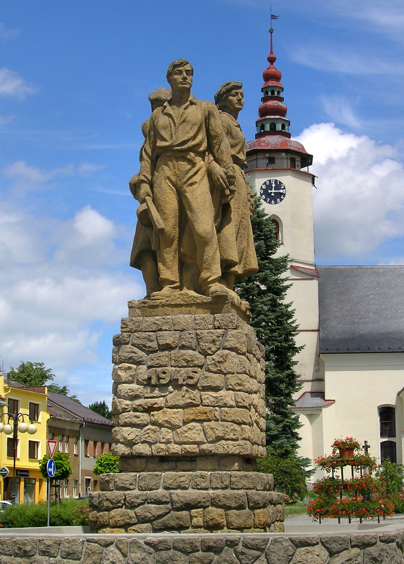 Vincenc Havel: World war II memorial in Bílovec, Czech Republic